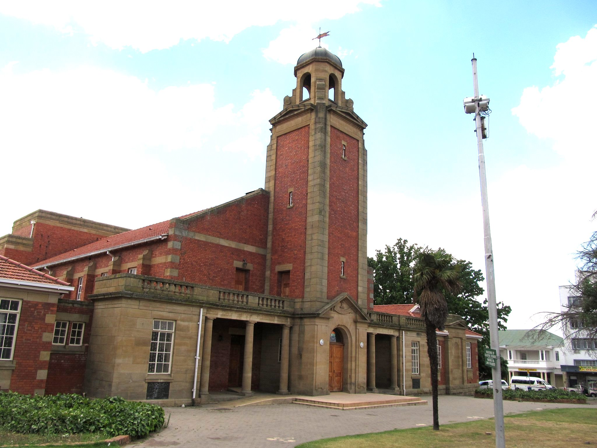 Town Hall, 20-22 Muller Street, Bethlehem This media shows a South African Protected Site with SAHRA file reference 9/2/300/0019.